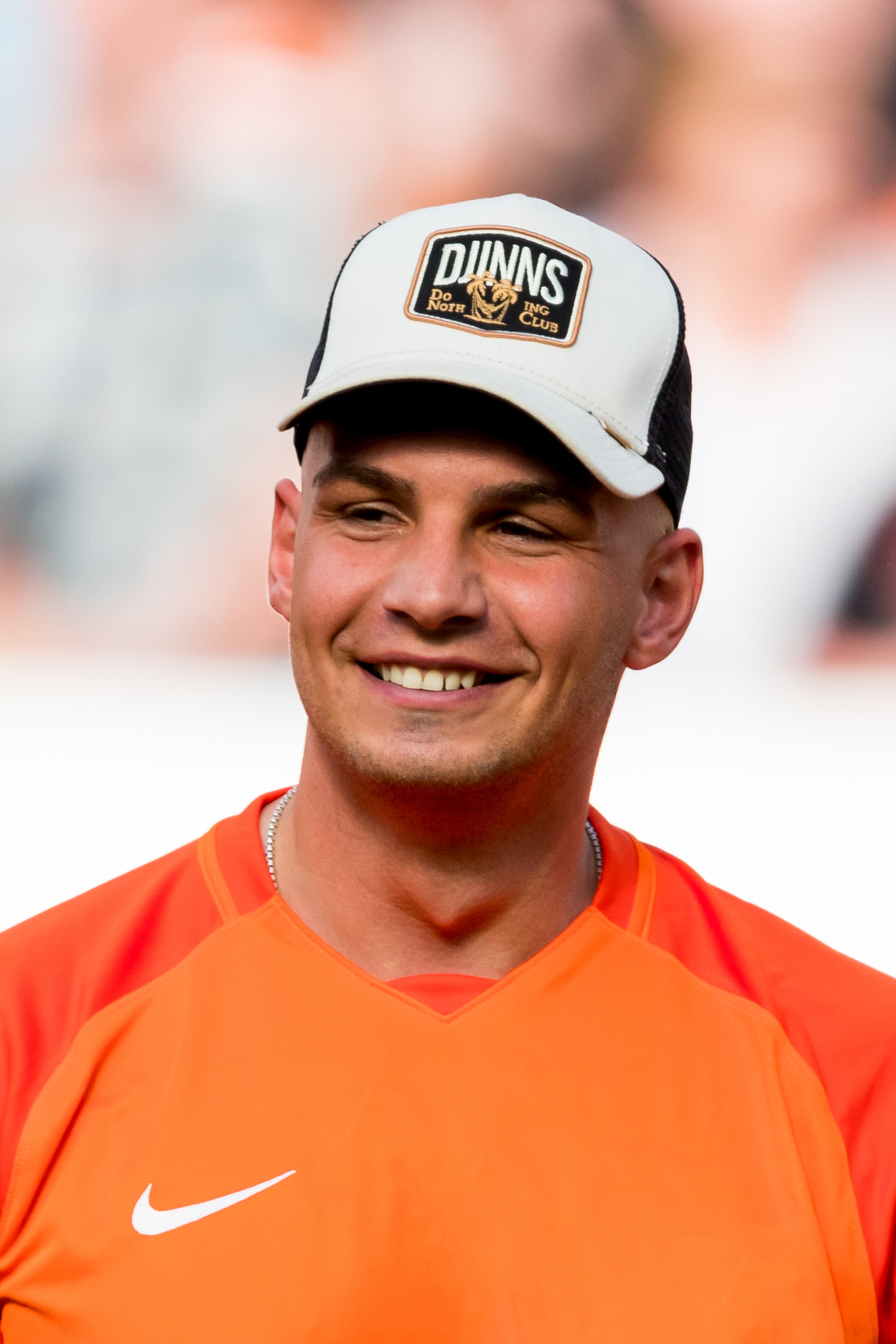 Pietro Lombardi during Champions for Charity at BayArena, Leverkusen, Nordrhein-Westfalen, Germany on 2019-07-21, Photo: Sven Mandel